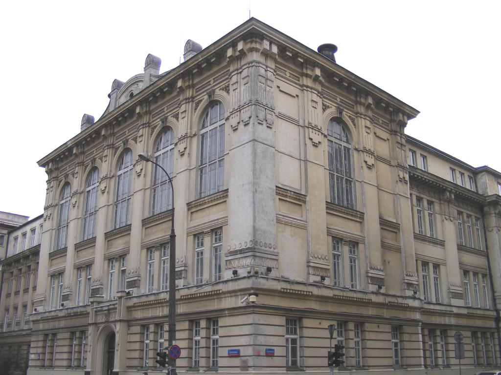 Warsaw University of Technology, Faculty of Architecture